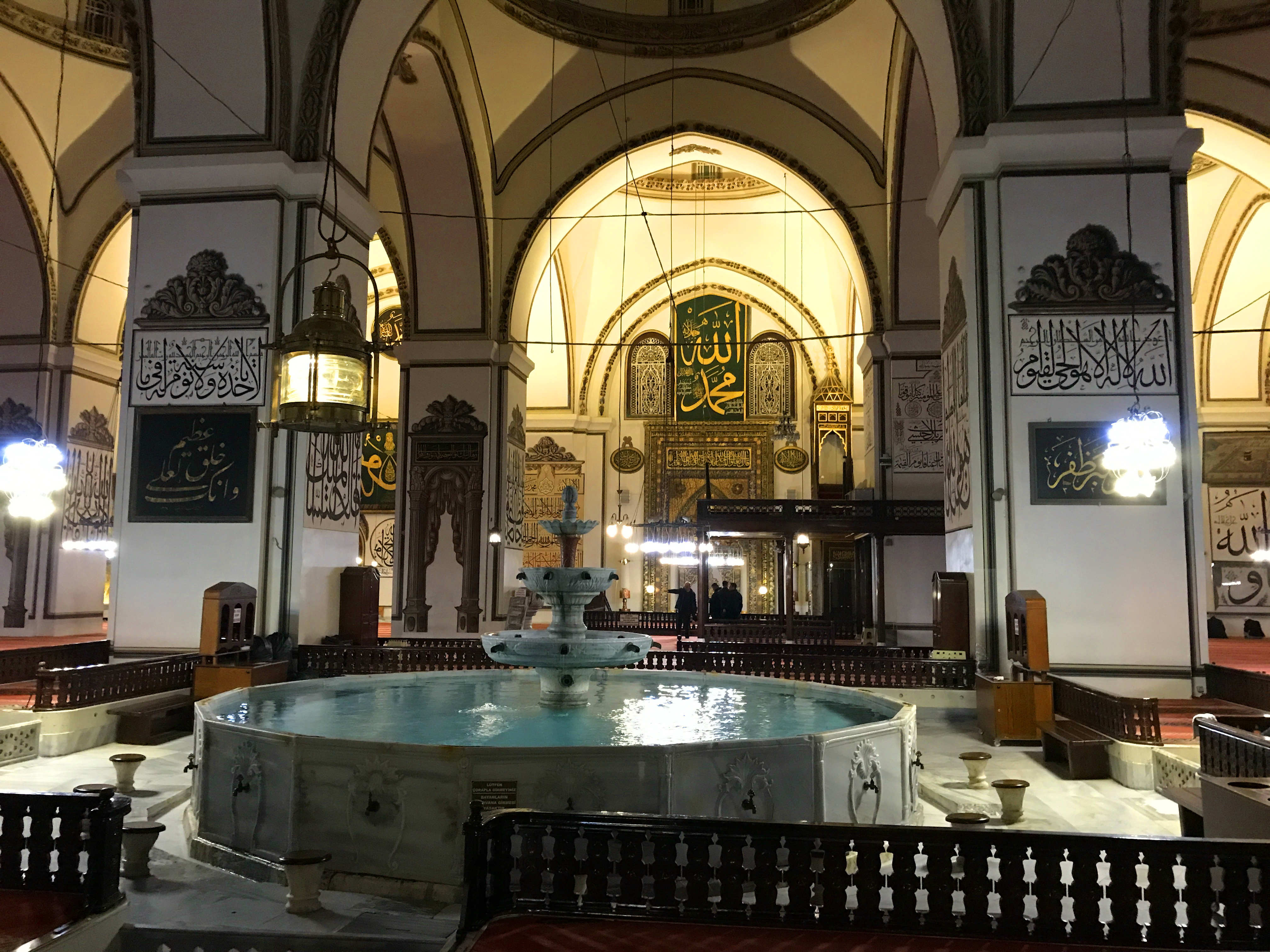 "Ulu Cami" (Grand Mosque of Bursa), Bursa, Turkey. Ablution Fountain inside "Ulu Cami" (Grand Mosque of Bursa). Ulu Cami is built in the Seljuk style, it was ordered by the Ottoman Sultan Bayezid I and built between 1396 and 1399. The mosque has 20 domes and 2 minarets.